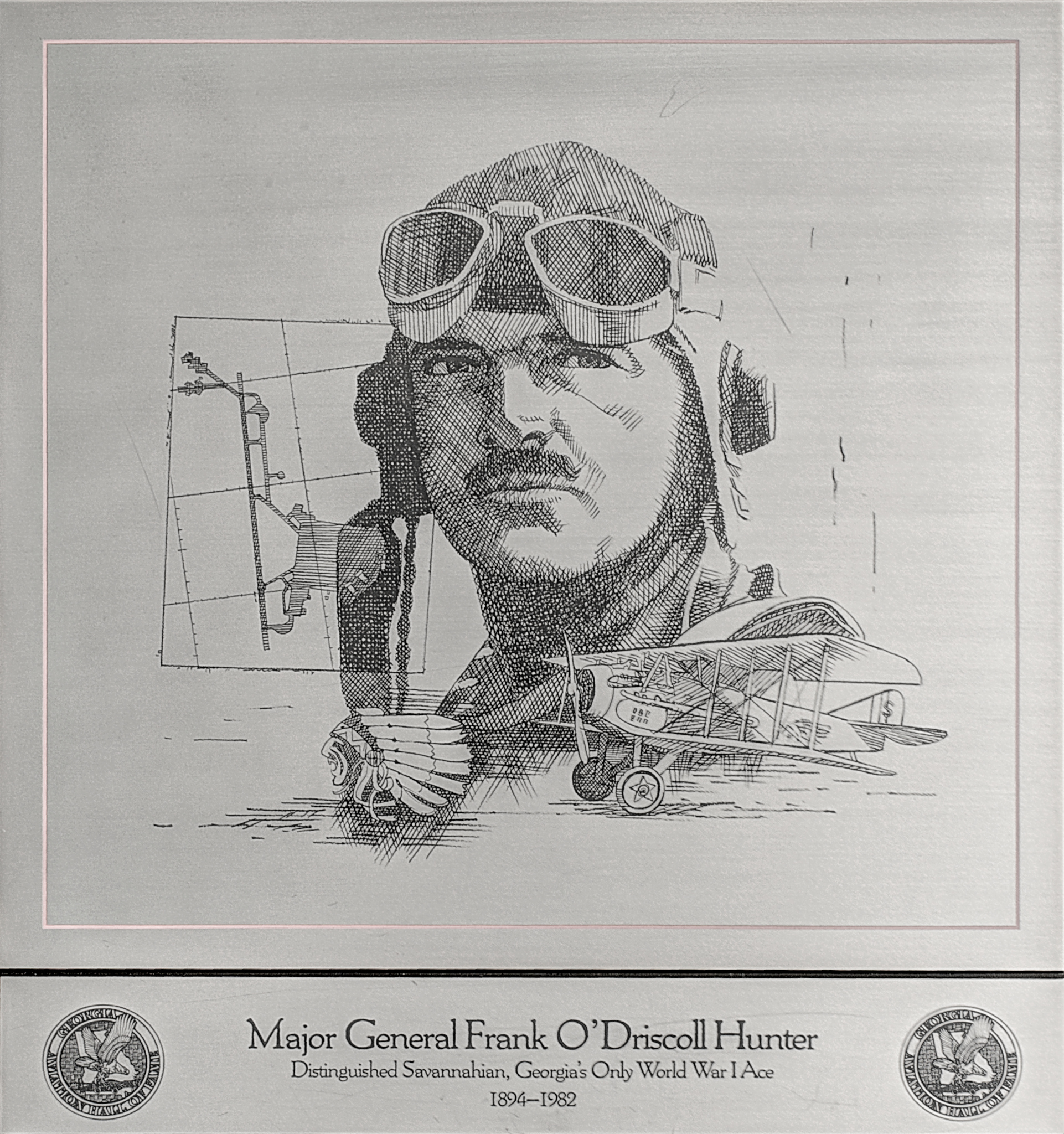 Major General Frank O'Driscoll Hunter (1894 - 1982)